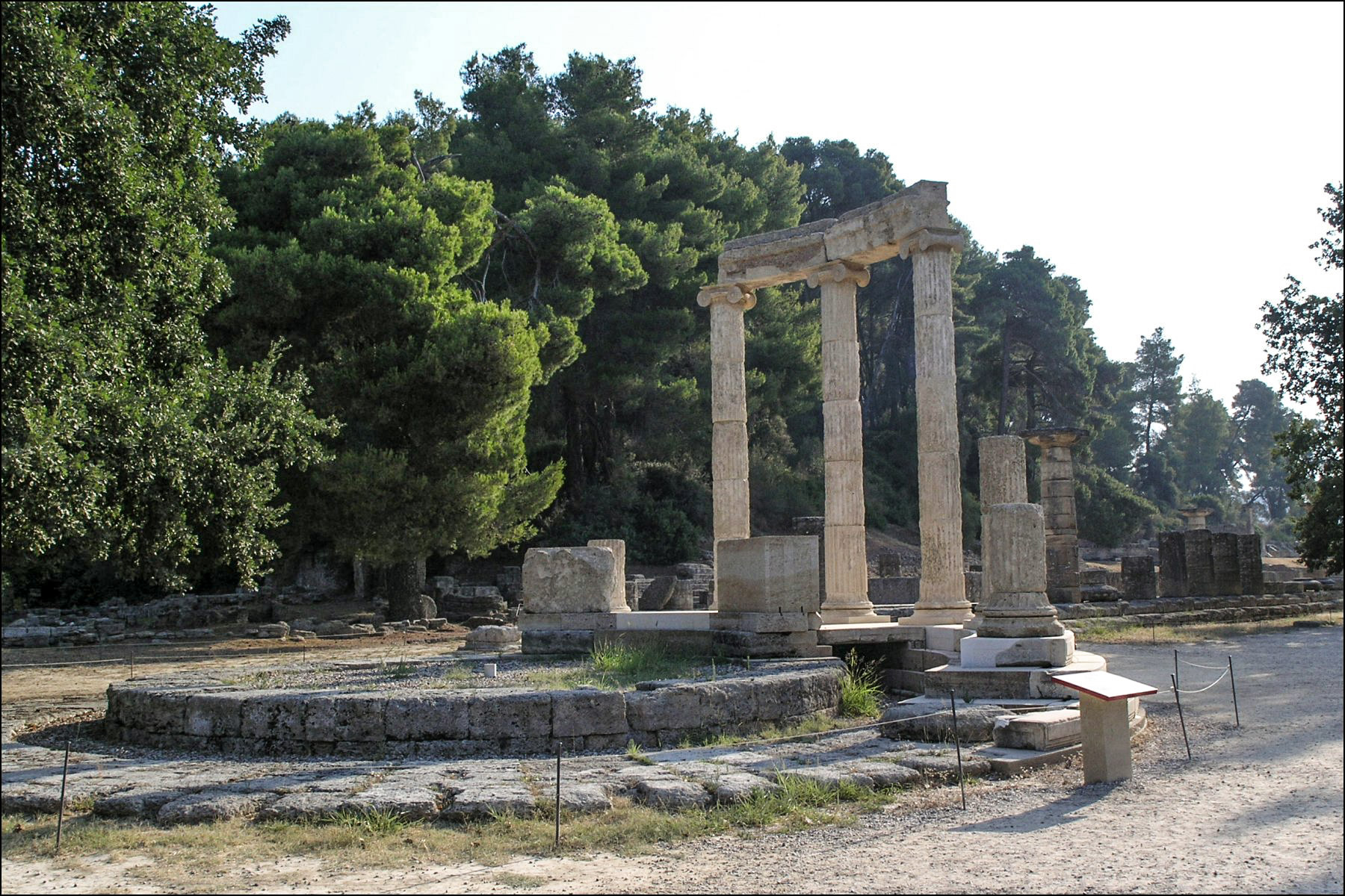 Olympia, Greek